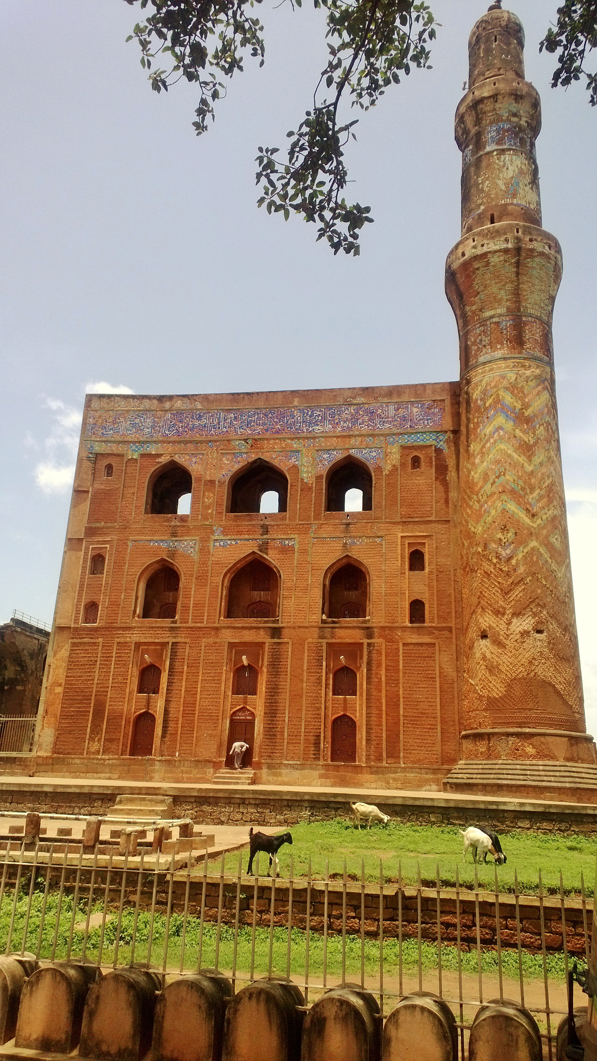 This is the photo taken using Windows phone on the way when visiting Bidar fort.